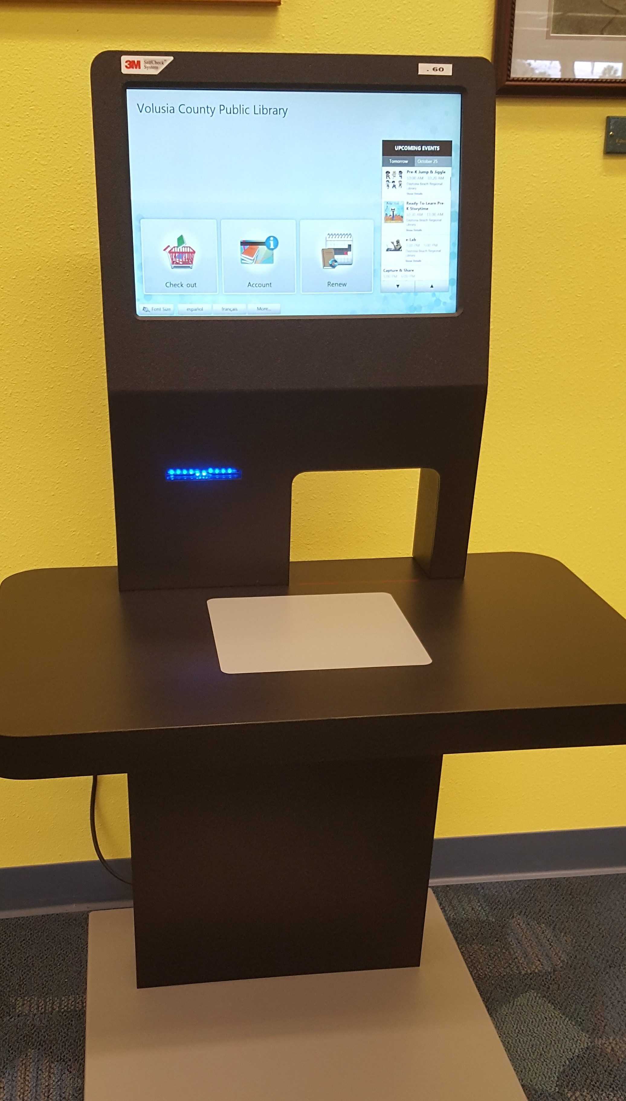 Self checkout station at the John H. Dickerson Heritage Library, Volusia County, Florida